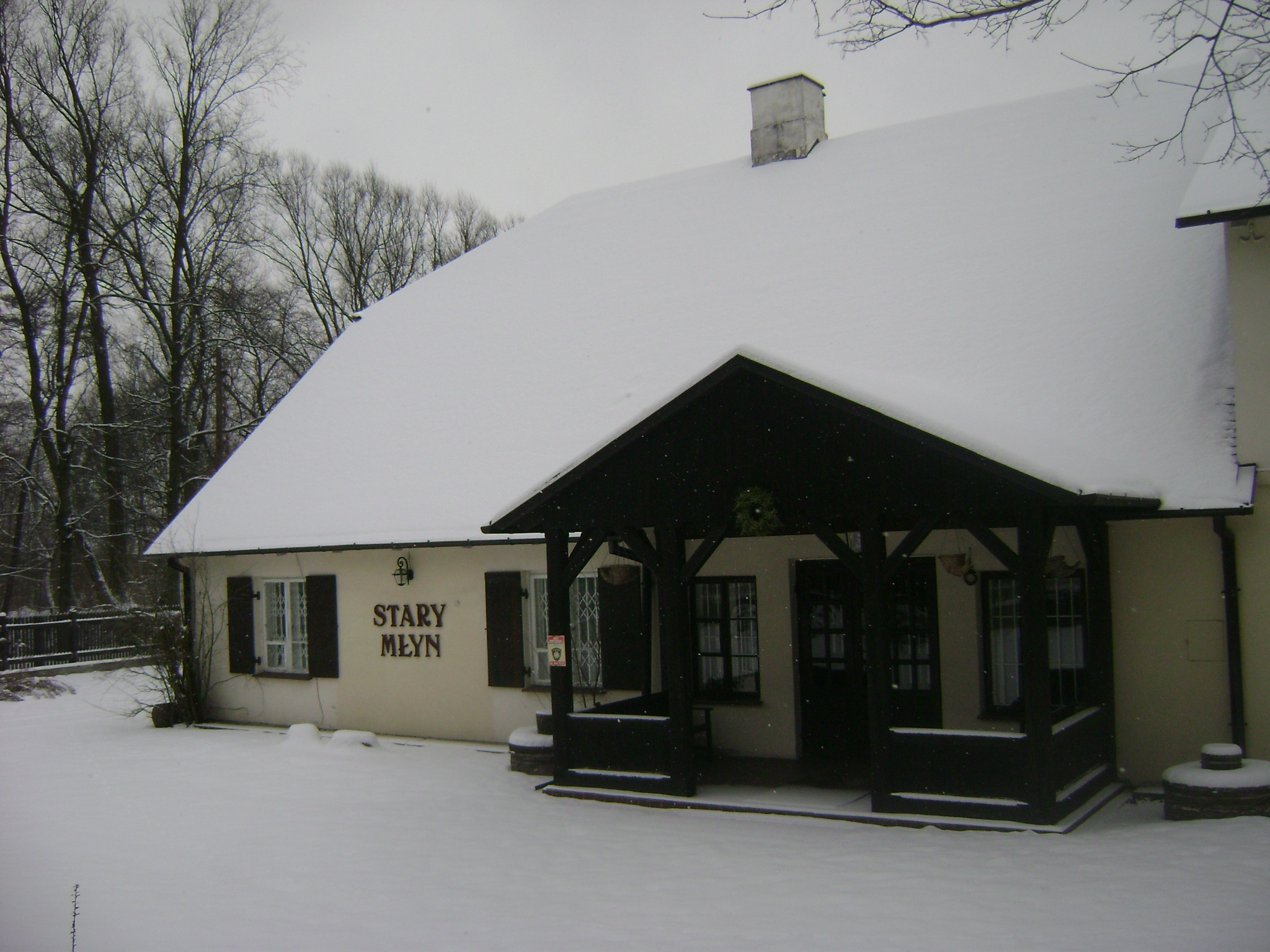 Poland. Konstancin-Jeziorna